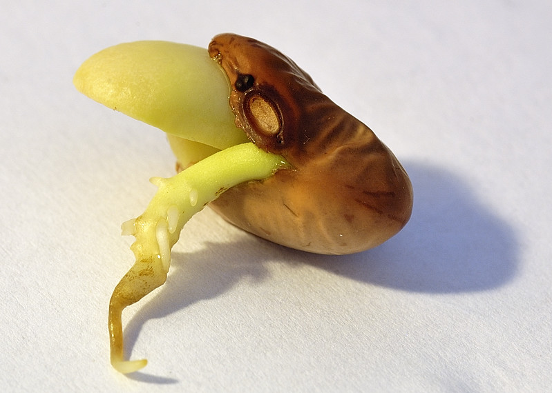 Bean germination